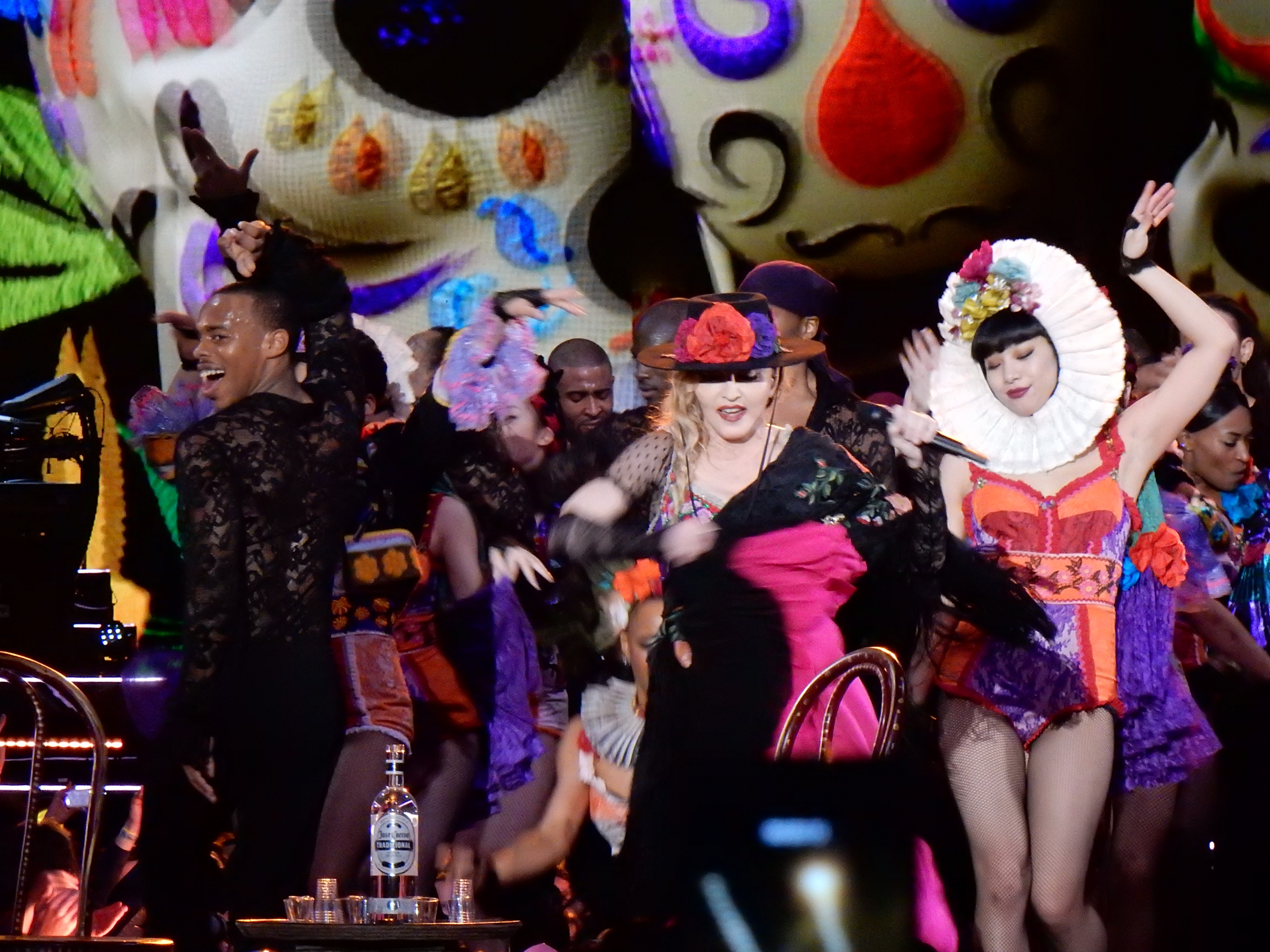 Madonna - Rebel Heart Tour 2015 - Paris 2